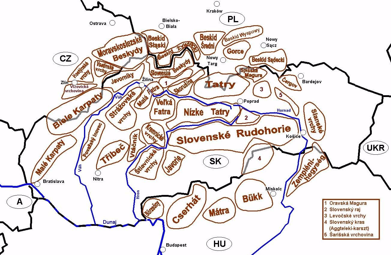 The Western Carpathians mountain ranges and geologic province, of the Carpathian Mountains system, in Poland, Slovakia, and Hungary.